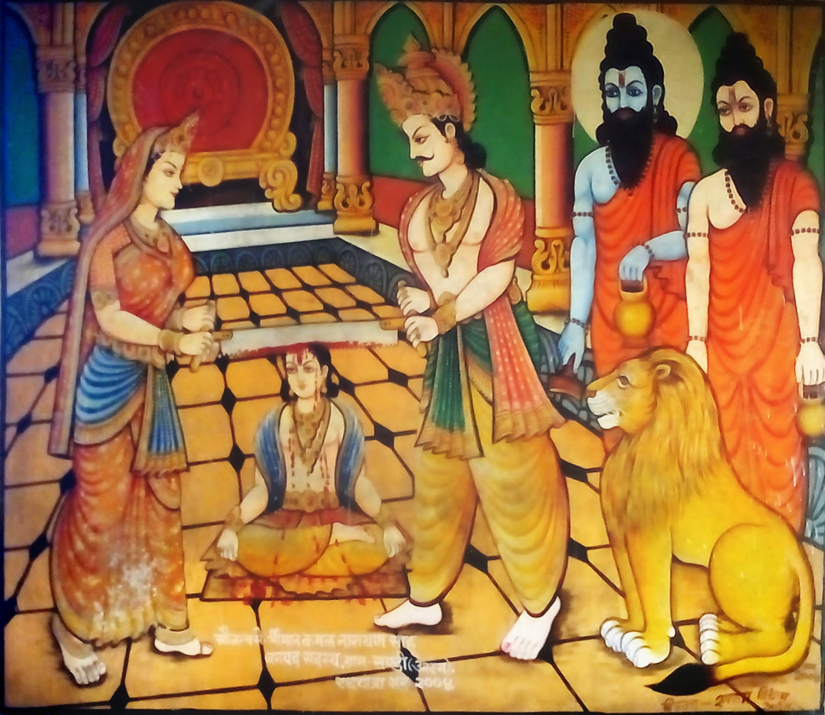 The picture is captured by Naresh Kumar Sonkar in arang from Danteswari temple, Drawn in a wall. Danteshwari temple is in front of the Manddewal temple. Raja Muraddhawaja, Muratdhawaja, Arang, Mandiro ka shahar.